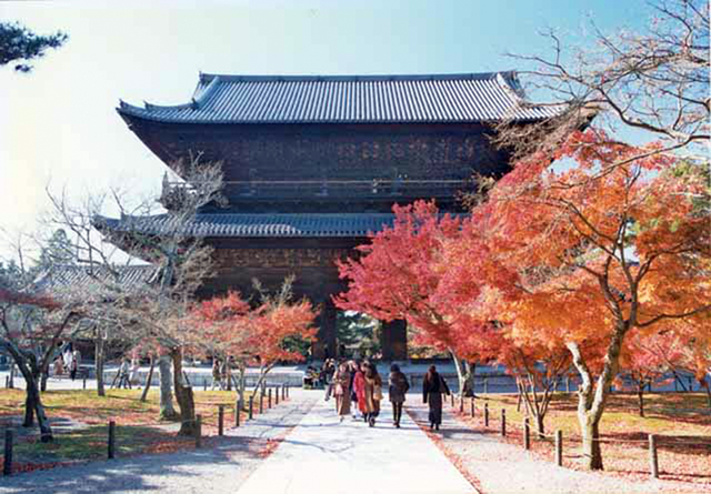 Nanzenji, an important Zen Buddhist temple in Kyoto, Japan. I took this photo and contribute my rights in the file to the public domain; individuals and organizations retain rights to images in it.